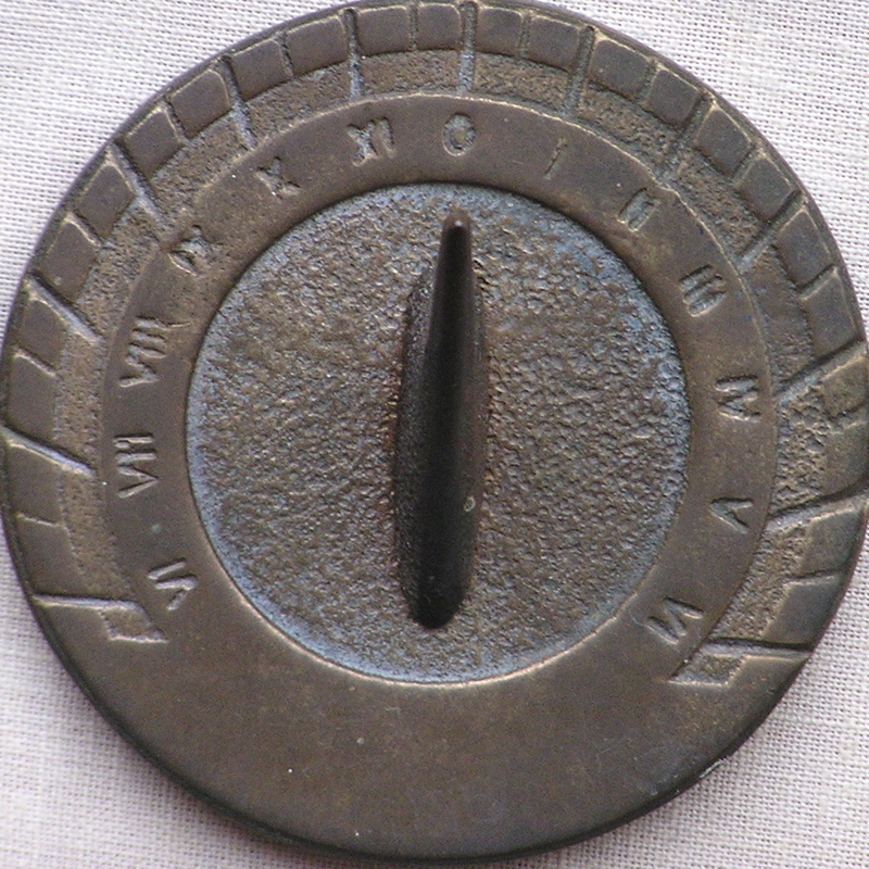 Sun dial from top view